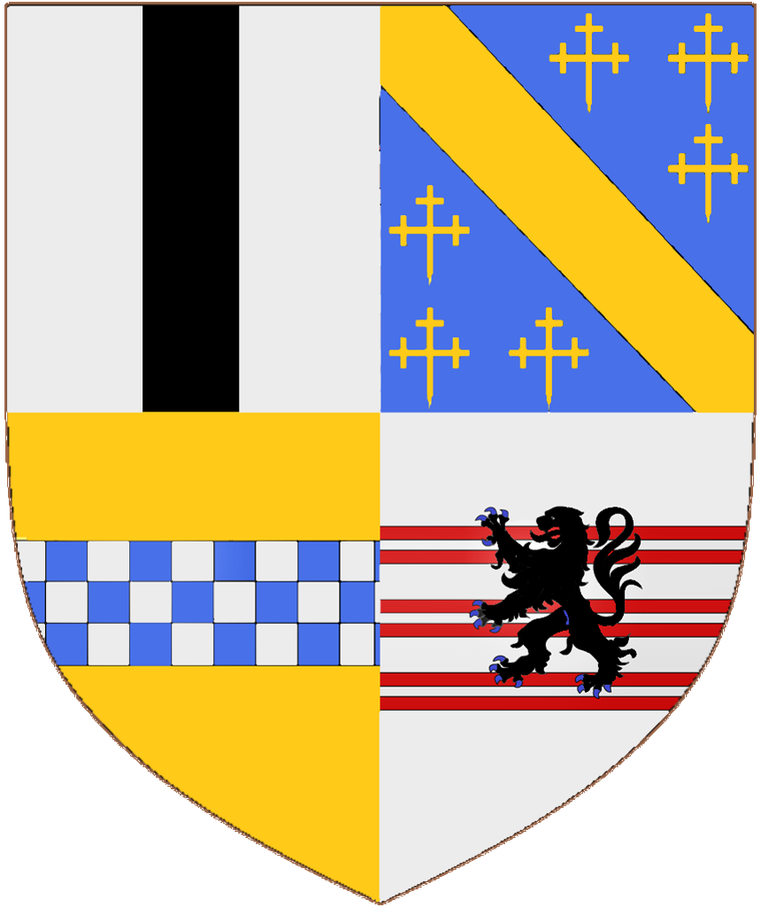 Shield of arms of The Lord Erskine